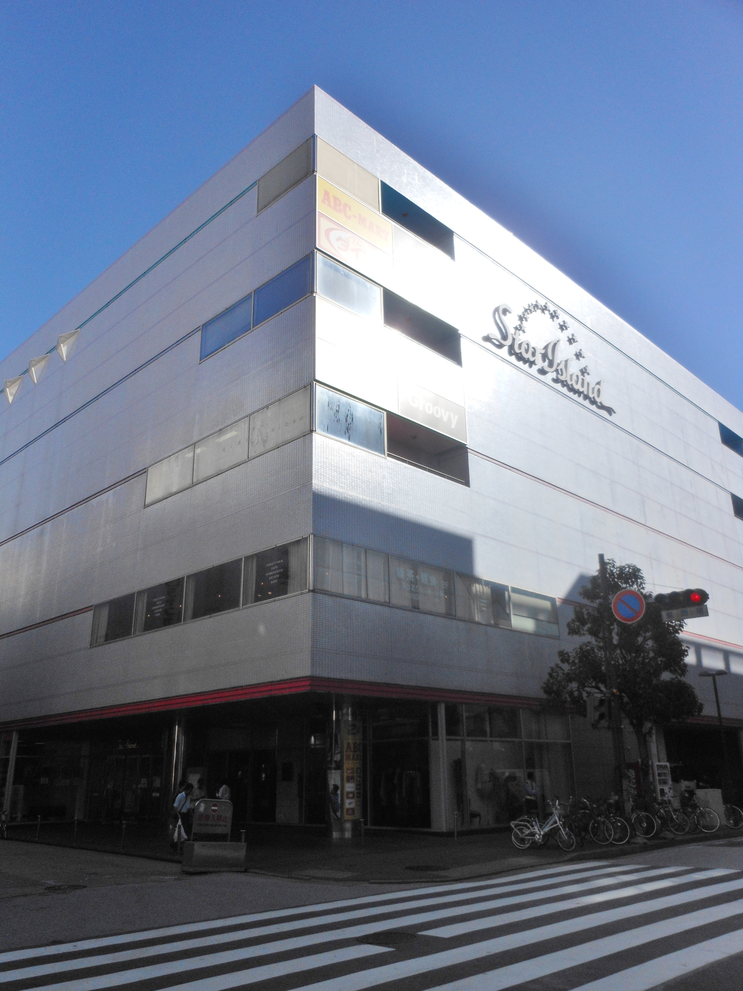 This is the Yokkaichi Star Island in City of Yokkaichi, Mie prefecture, Japan.